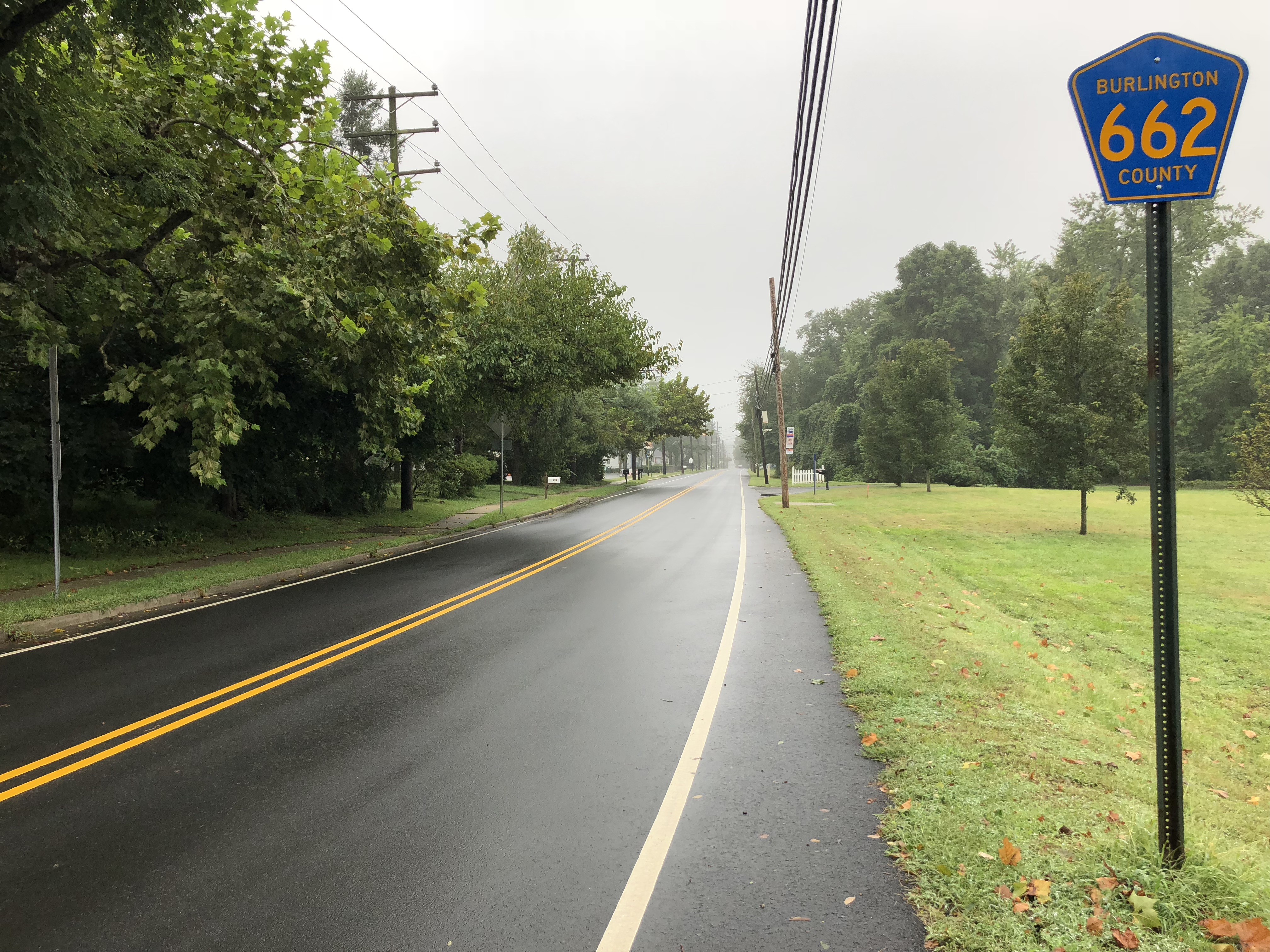 View west along Burlington County Route 662 (4th Street) just west of Delaware Avenue in Fieldsboro, Burlington County, New Jersey